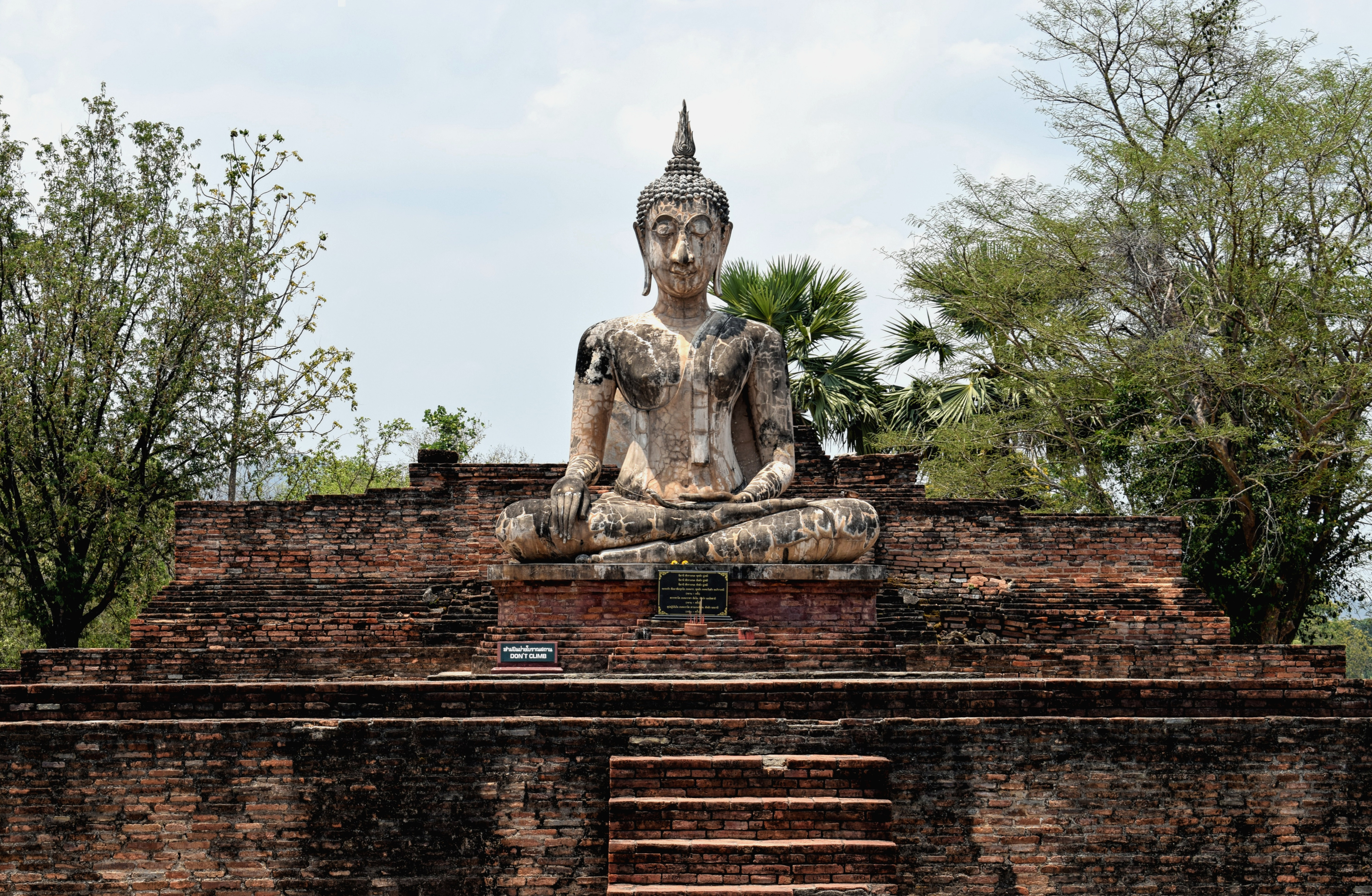 Wat Mae Chon ruins in Sukhothai Historical Park, Thailand.